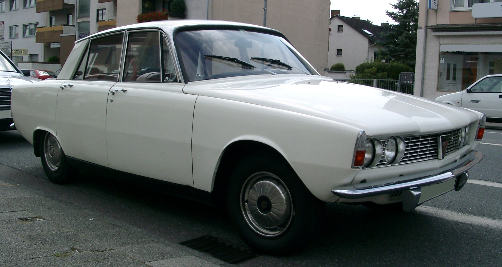 Rover 2000 Series I (P6) in Germany